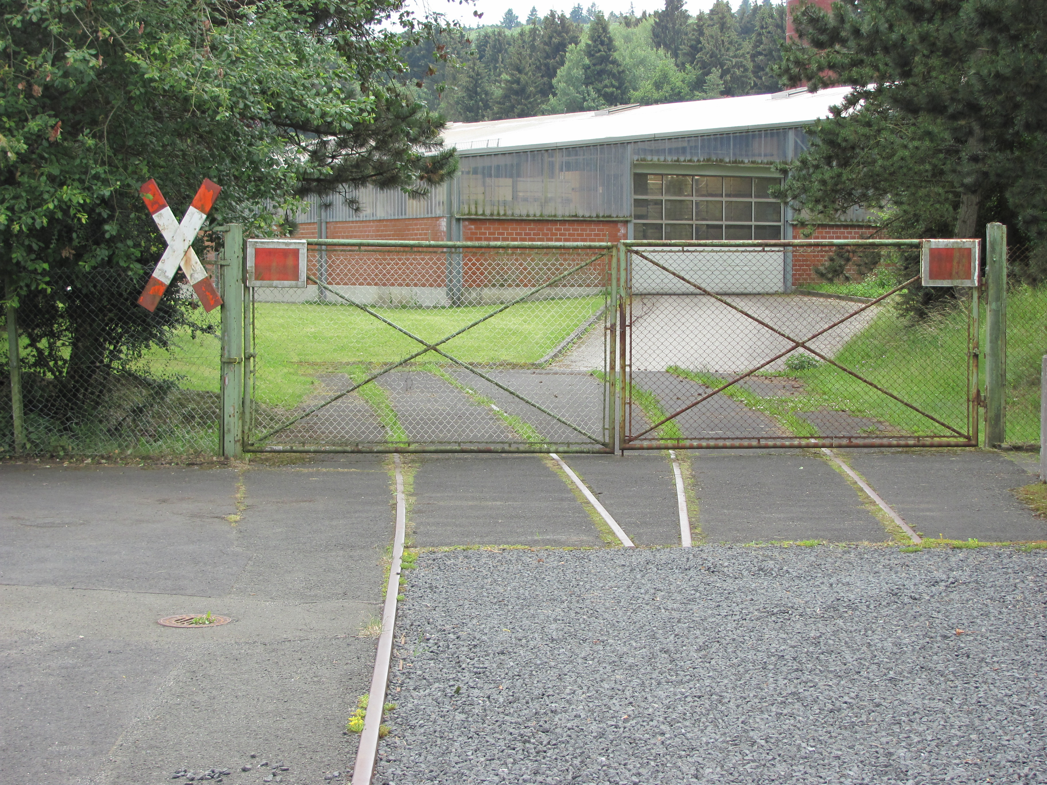 End of Aubachtalbahn, Breitscheid, Hessen, Germany